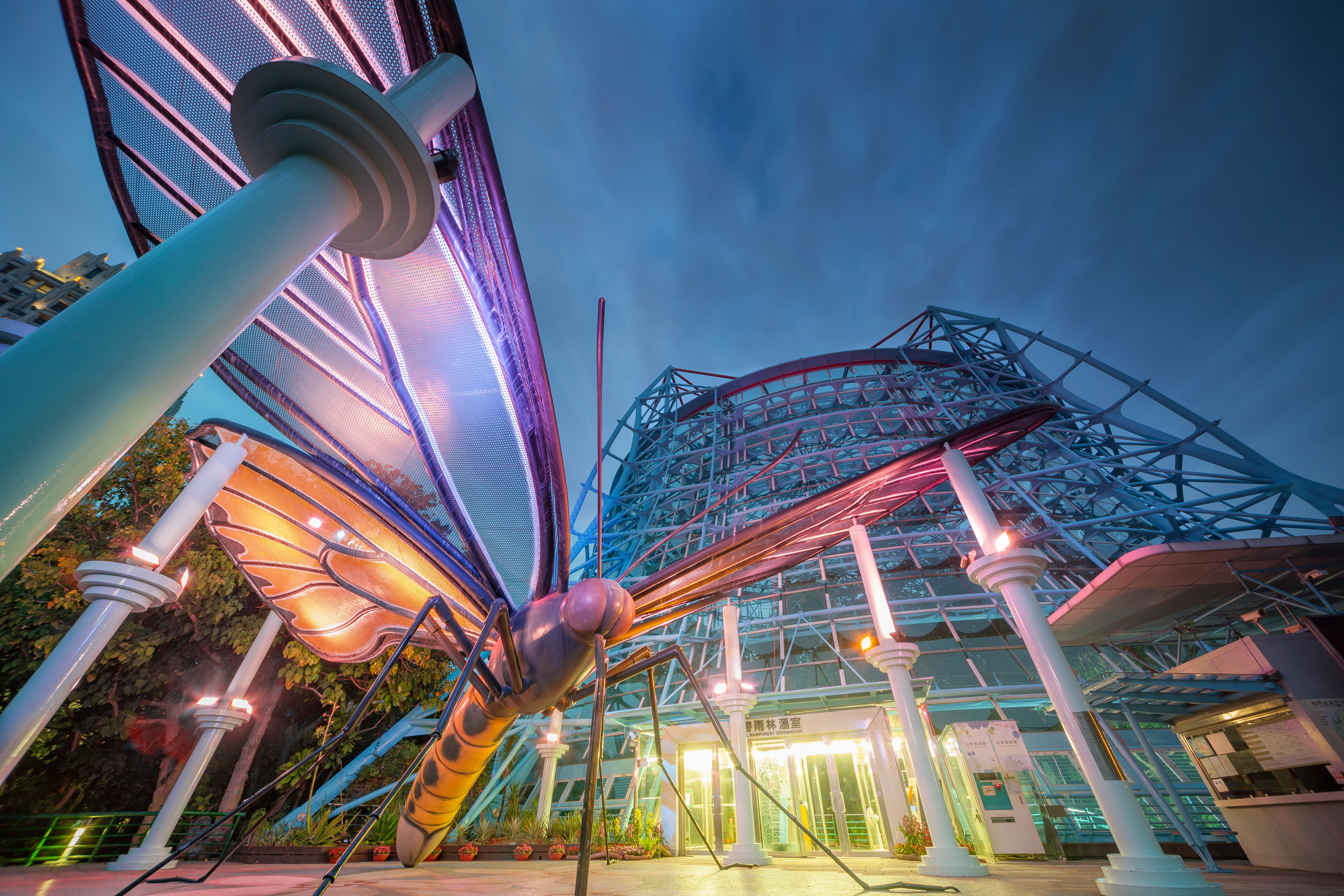 Entrance of Tropical Rainforest Conservatory of Botanical Garden, which is a part of National Museum of Natural Science, Taichung, Taiwan.